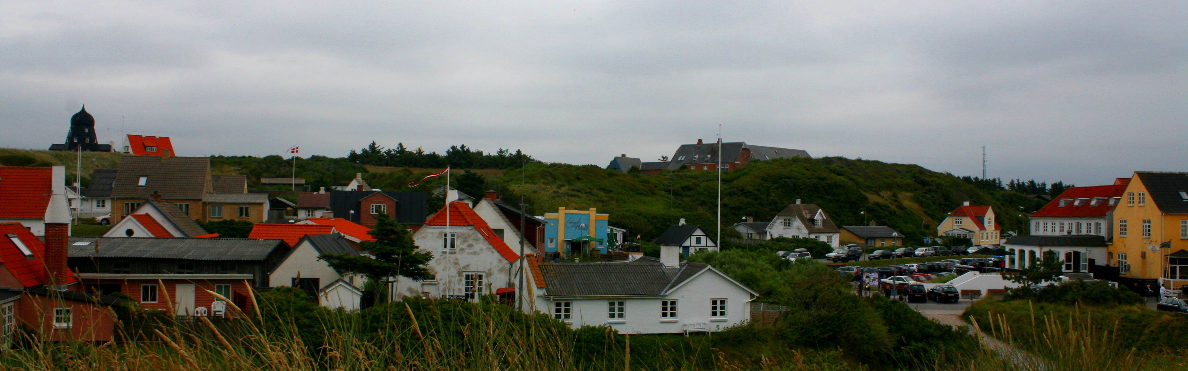 Lønstrup, a village in Northern Jutland, Denmark